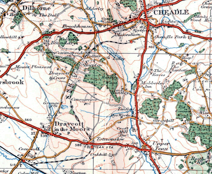 The Cheadle Branch Line on its original alignment, as seen on a 1921 OS map